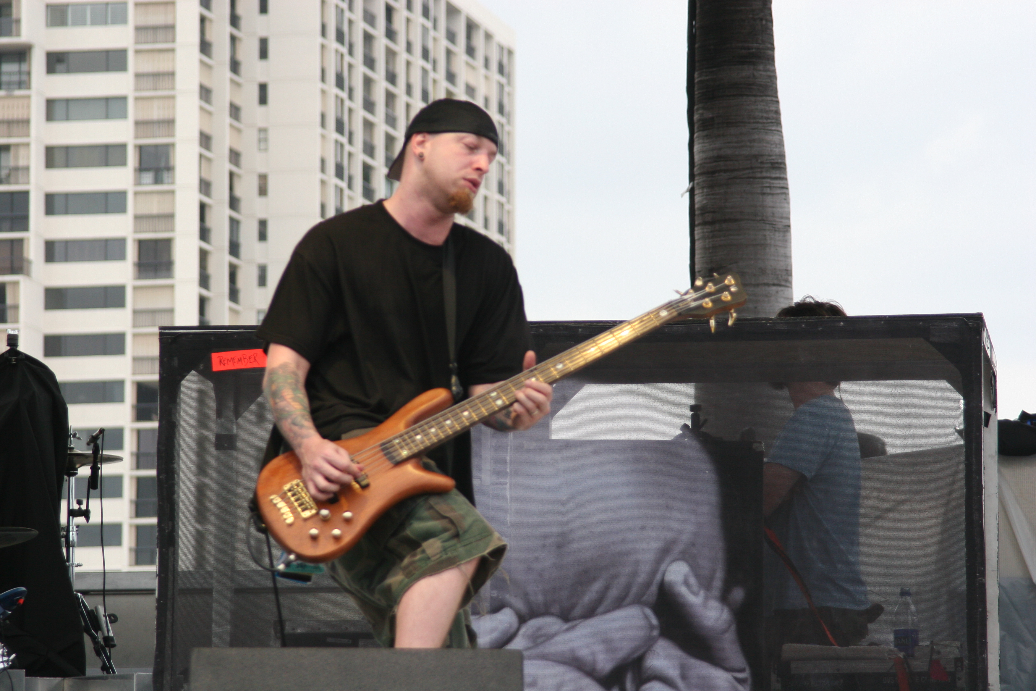 Marcus Klepaski (Breaking Benjamin) playing at the 2005 Sunfest in West Palm Beach.